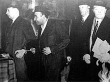 A picture depicting Udham Singh as he is being led away from Caxton Hall after the assassination of Michael O’ Dwyer.